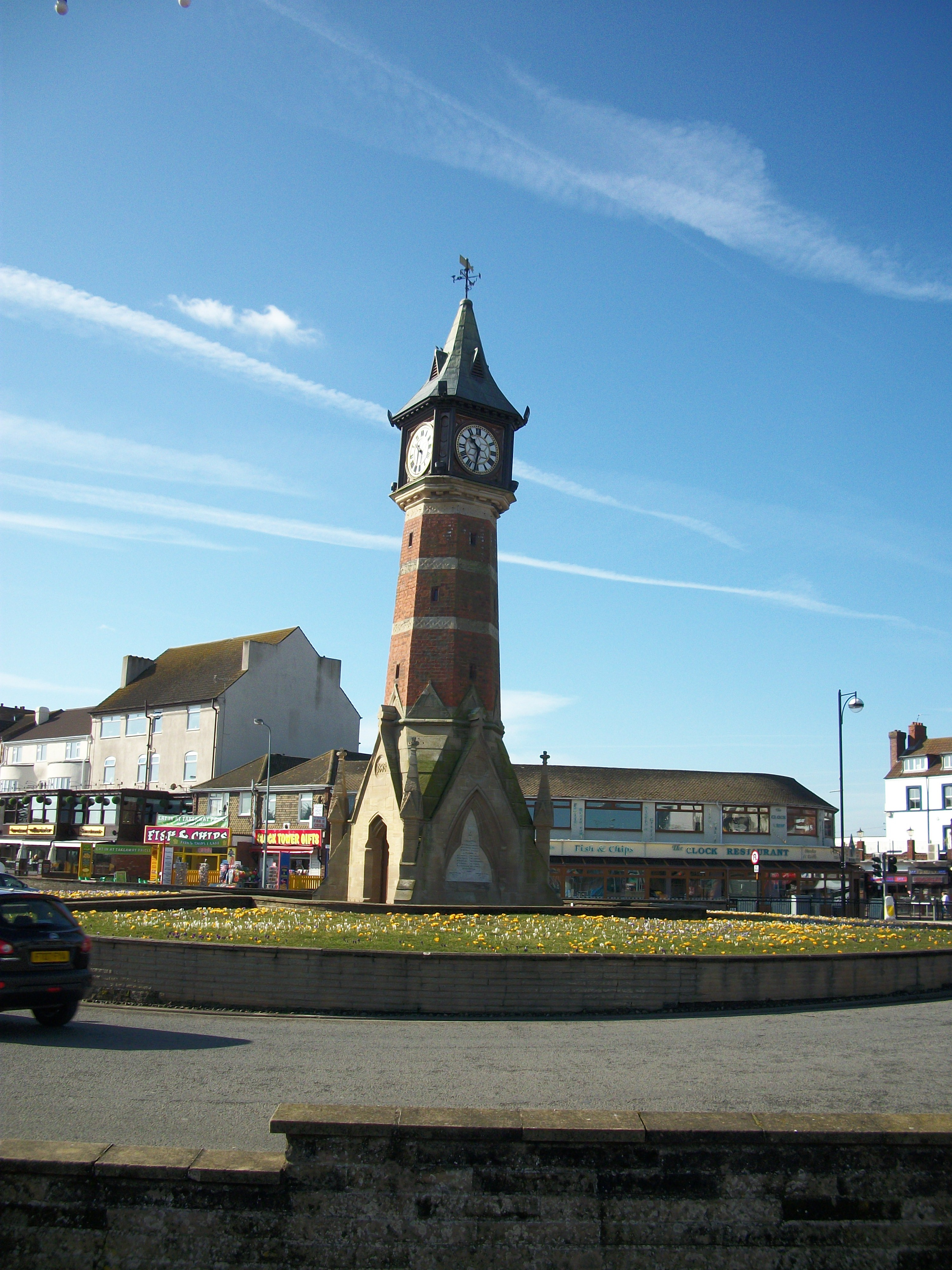 Skegness Clock Tower